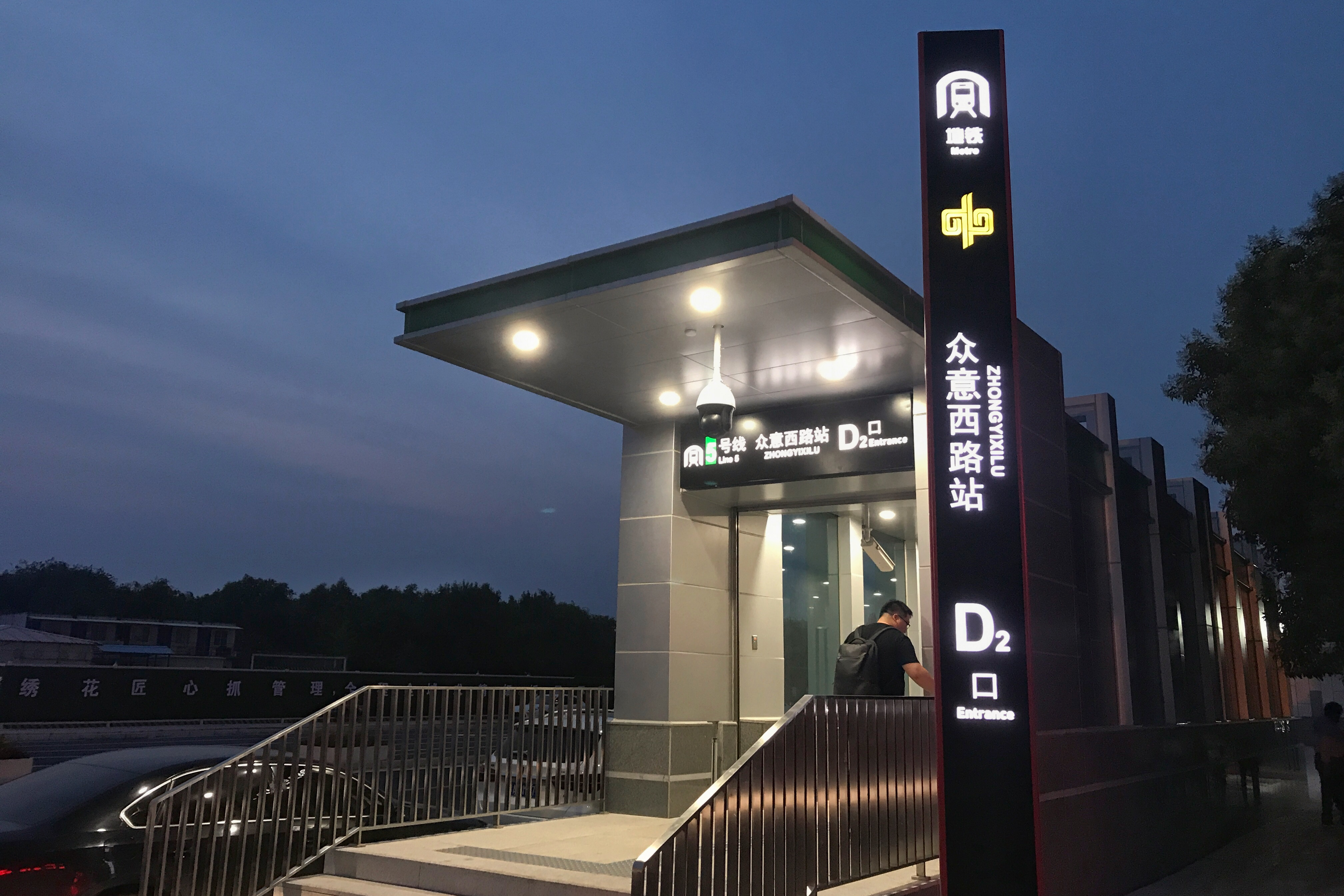 Entrance D2 of Zhongyixilu Station